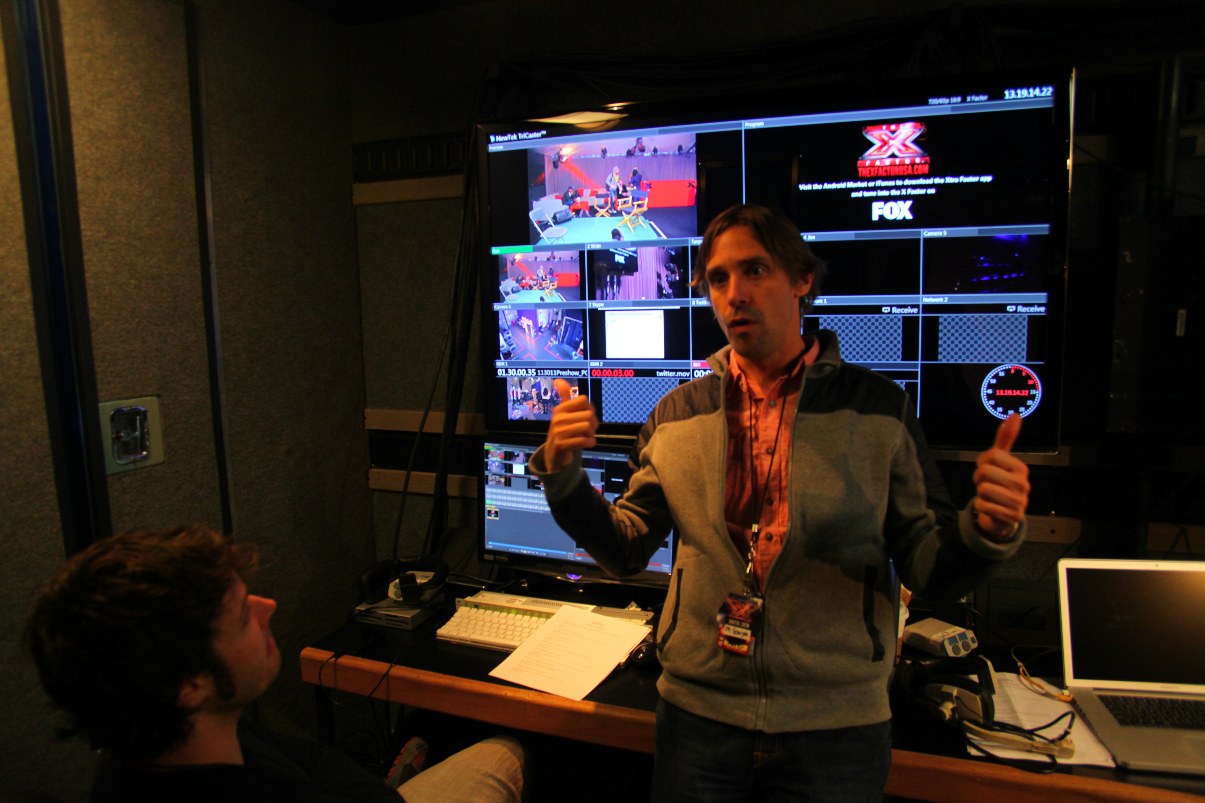 Marc Scarpa directing X Factor Digital from the control room